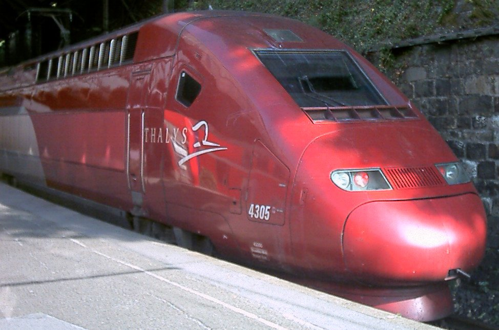 Traction unit of a Thalys train at Aachen Hauptbahnhof